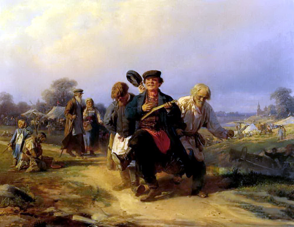 Alexey Korzukhin (1835-1894) Return of the father from the fair